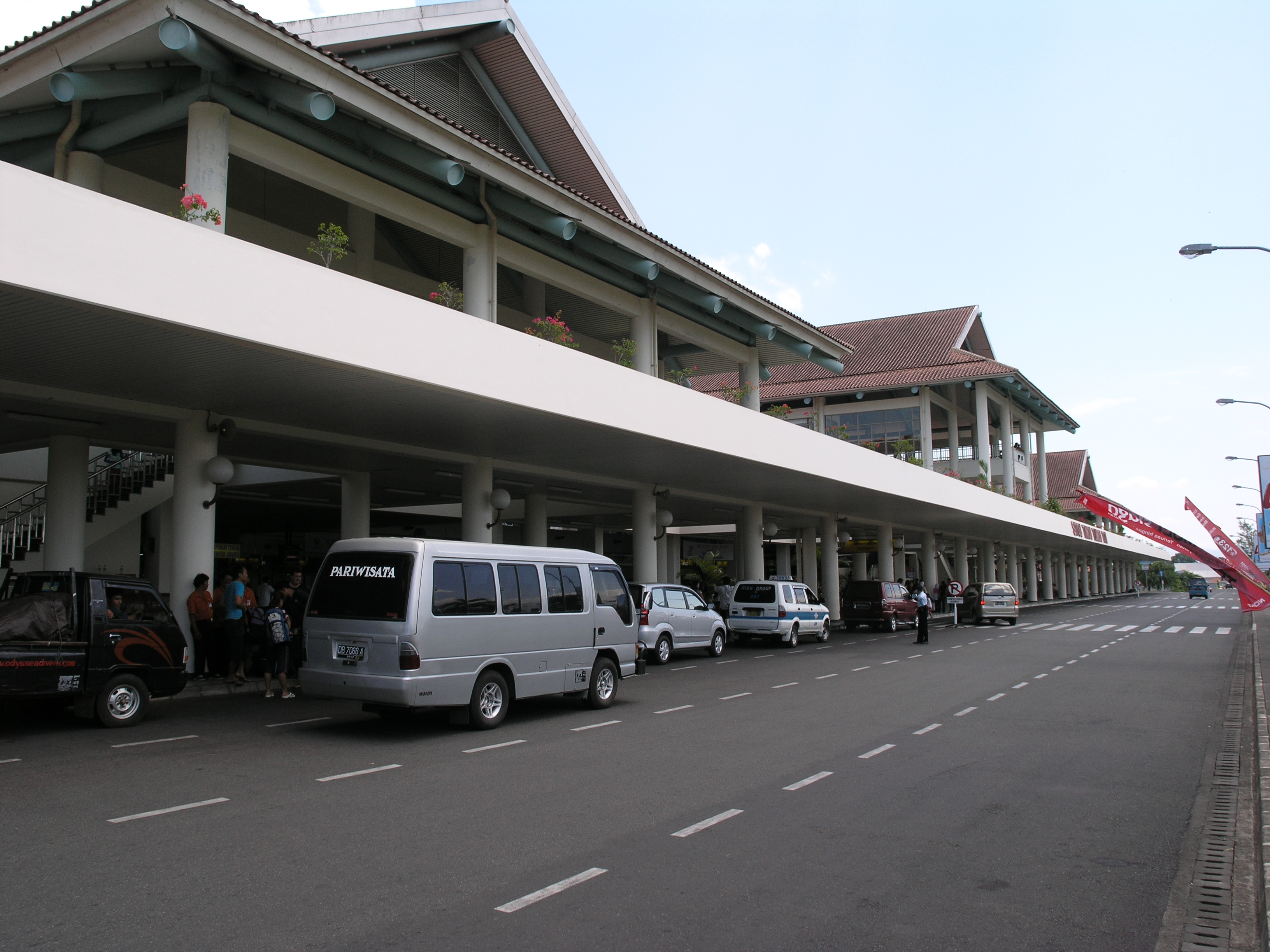 Picture of Manado airport. Manado, North Sulawesi, Indonesia.